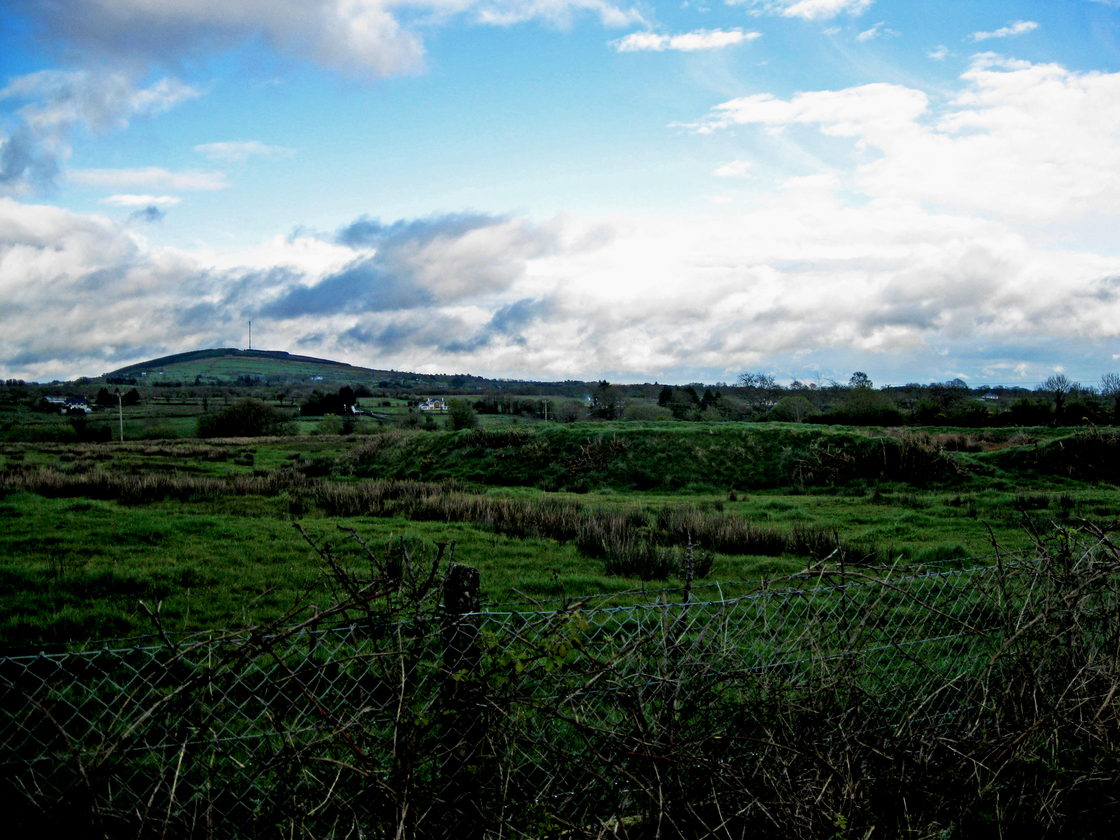 View of Cairn Hill from the townland of Bawn to the SW